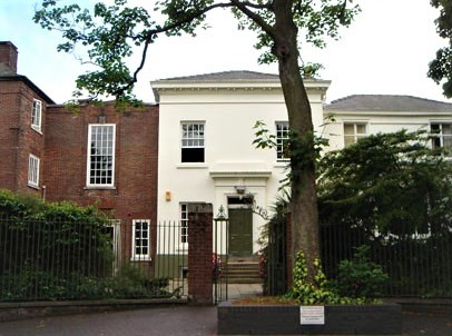 St. Anselm Hall from Kent Road East showing Kent House